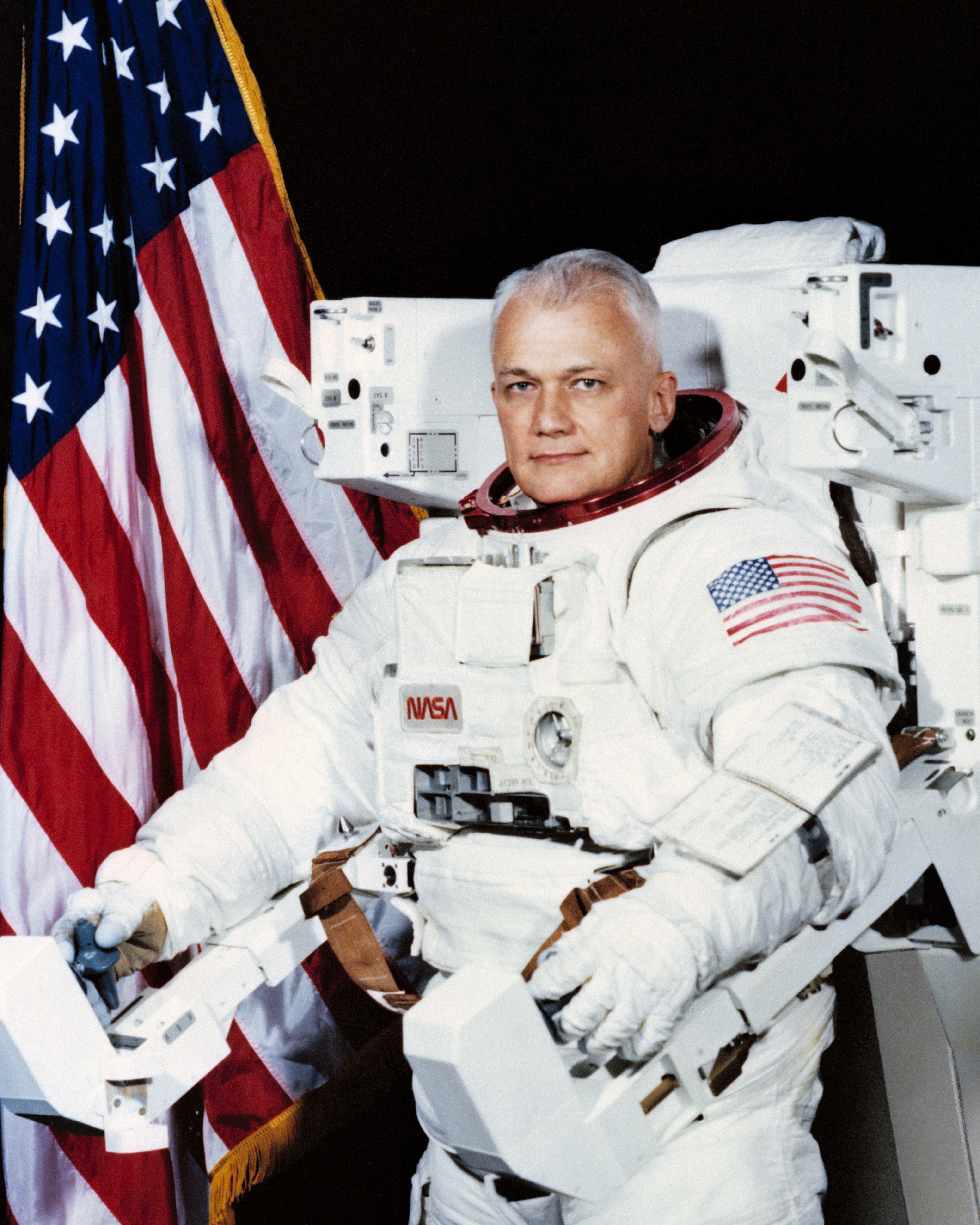 Bruce McCandless II (Captain, USN, Ret.), NASA Astronaut (former) Official Space Shuttle portrait of Astronaut Bruce McCandless, II., attired in the Shuttle Extravehicular activity (EVA) suit with the manned maneuvering unit (MMU) attached and the American flag in the background.